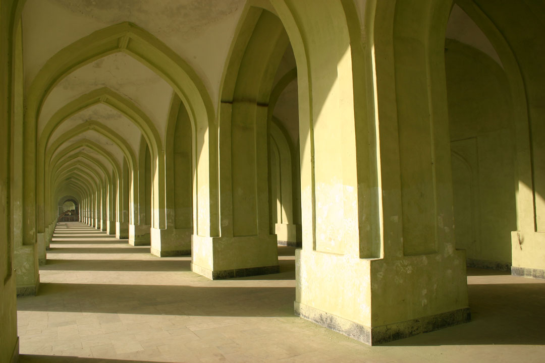 The Eidgah Mosque is currently the biggest mosque in Kabul City and can house up to 10,000 worshippers.